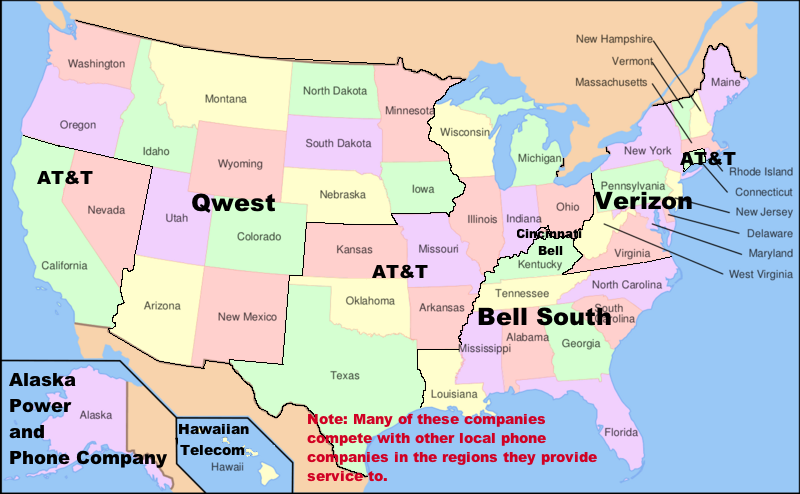 A map of the remaining Regional Bell Operating Companys left in the United States/